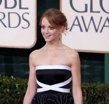 Golden Globe Awards January 17, 2010